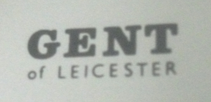 Typical "Gent of Leicester" logo